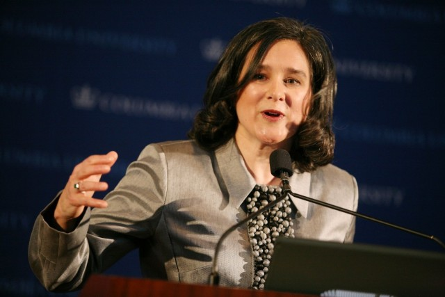 Columbia University lecture on The Undivine Comedy